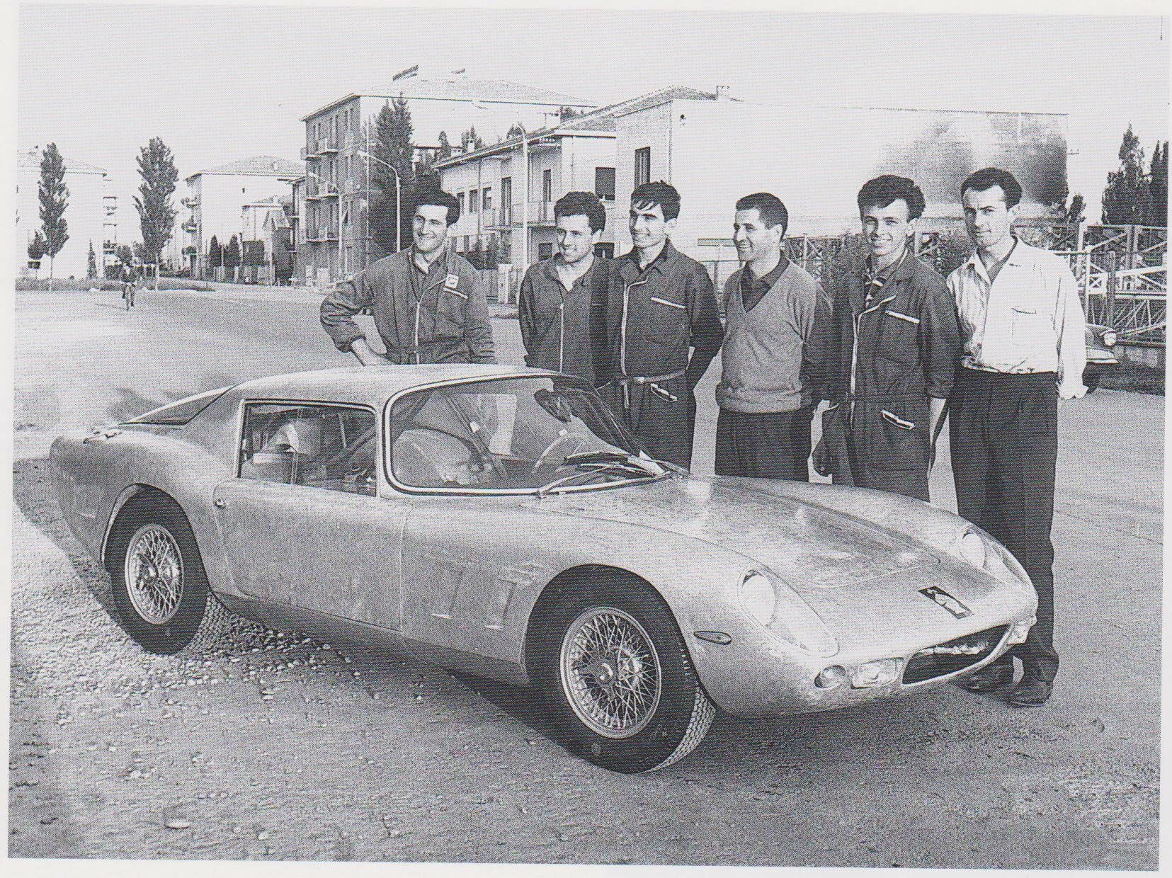 1960s ASA 1000 GTC with Giotto Bizzarrini (in the middle, light sweater) and what may be members of the racing team "Scuderia Elmo d'Argento" based in Milano ("Elmo d'Argento" means "Silver helmet"). Note the "silver helmet" logo on the hood. Four members of this team was supposed to use ASA 1000 at Le Mans on 15–16 June 1963, but failed to appear.[1] They were: Jean Vinatier+Paul Condrillier (entry #46) and Carlo Facetti+Giorgio Bassi (#47). Perhaps they are in the picture, then the time/date of this picture would be around that Le Mans event. The GTC was made by Bizzarini in Livorno (chassis) and Drogo in Modena (body), and there was (supposedly) only two made? [2]